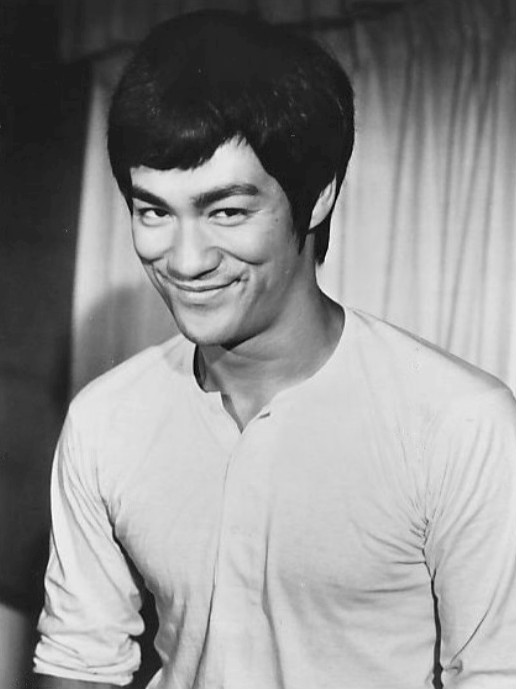 Photo of Bruce Lee from the film Fists of Fury (aka The Big Boss).